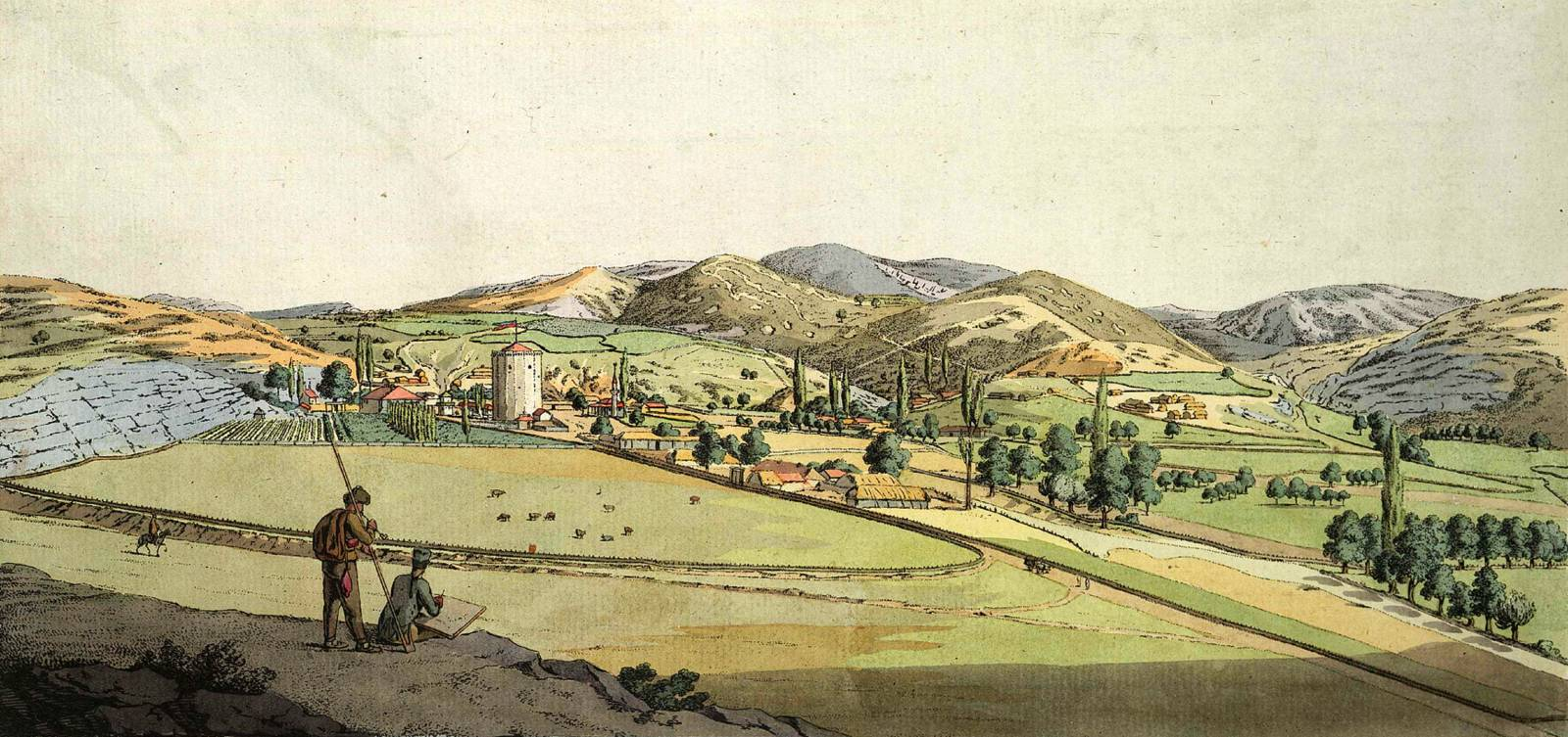 The village Chorgun. 1801.